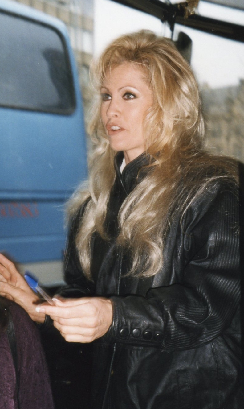 Sable during a WWF tour in Manchester, England. Taken April 4, 1998.